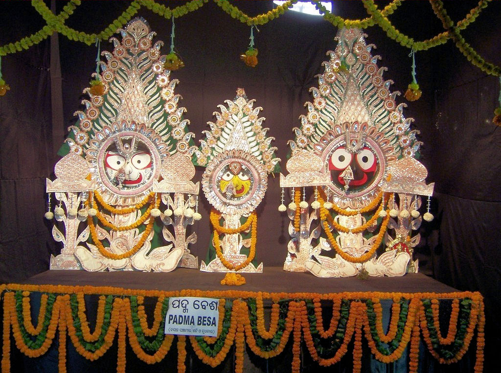 Lord Jagannath in Padma (Lotus) Besha (Getup)